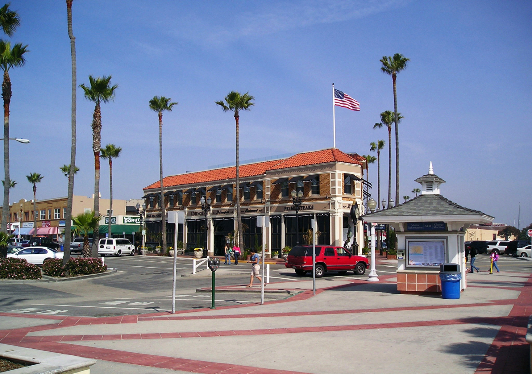 On the promenade opposite the Newport Pier in Newport Beach, California.